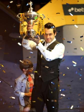 Ronnie O'Sullivan with World Championship Trophy 2013